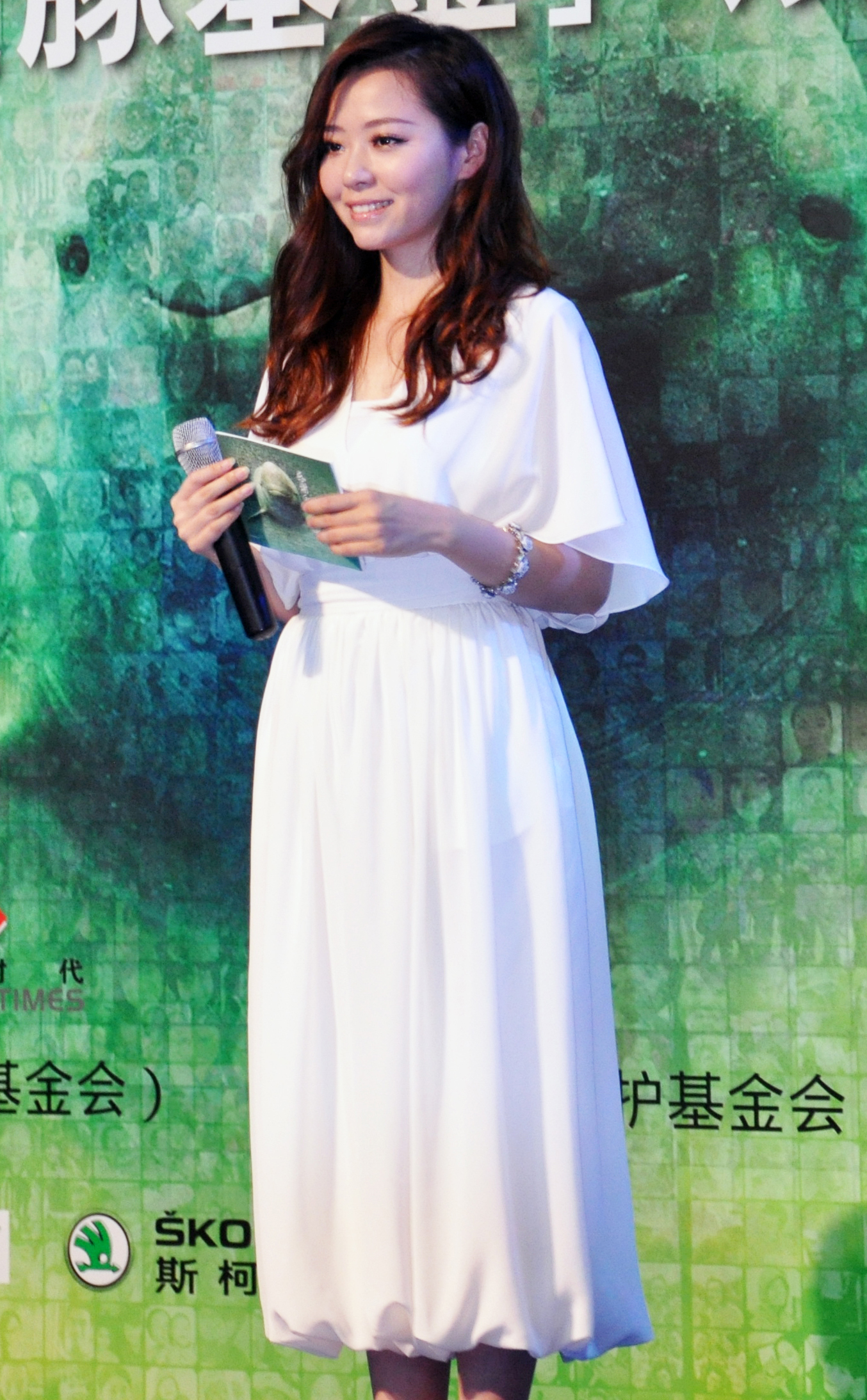 A photo of Jane Zhang